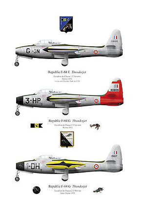 F84 E&G of EC 001.003 Navarre FAF